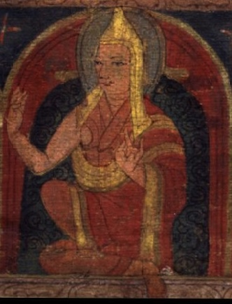 Lhodrak Sengge Zangpo, 13th Century Tibetan monk